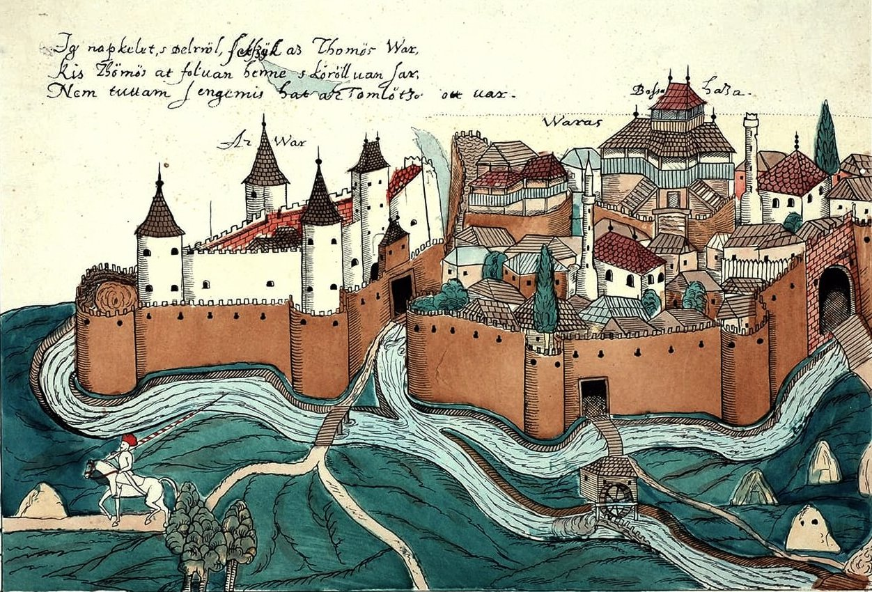 The city of Timișoara in 1602. Chromolithography made in 1836 in Vienna, by Ludwig Förster, on the basis of Ferenc Wathay sketch.